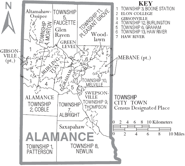 Map of Alamance County, North Carolina, United States with township and municipal boundaries